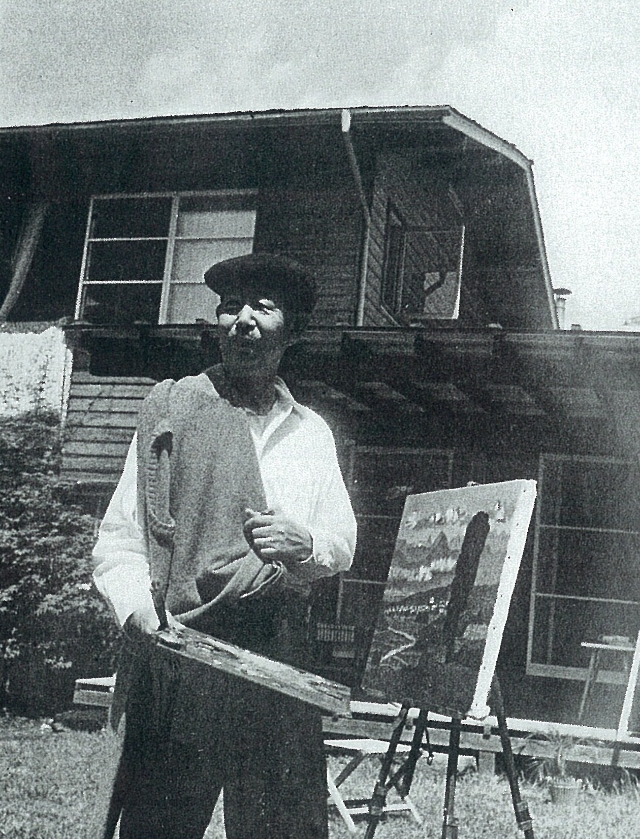 Tatsushiro Takabatake is a Japanese painter.